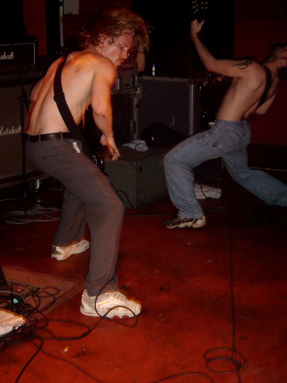 Hewhocorrupts at Calypso